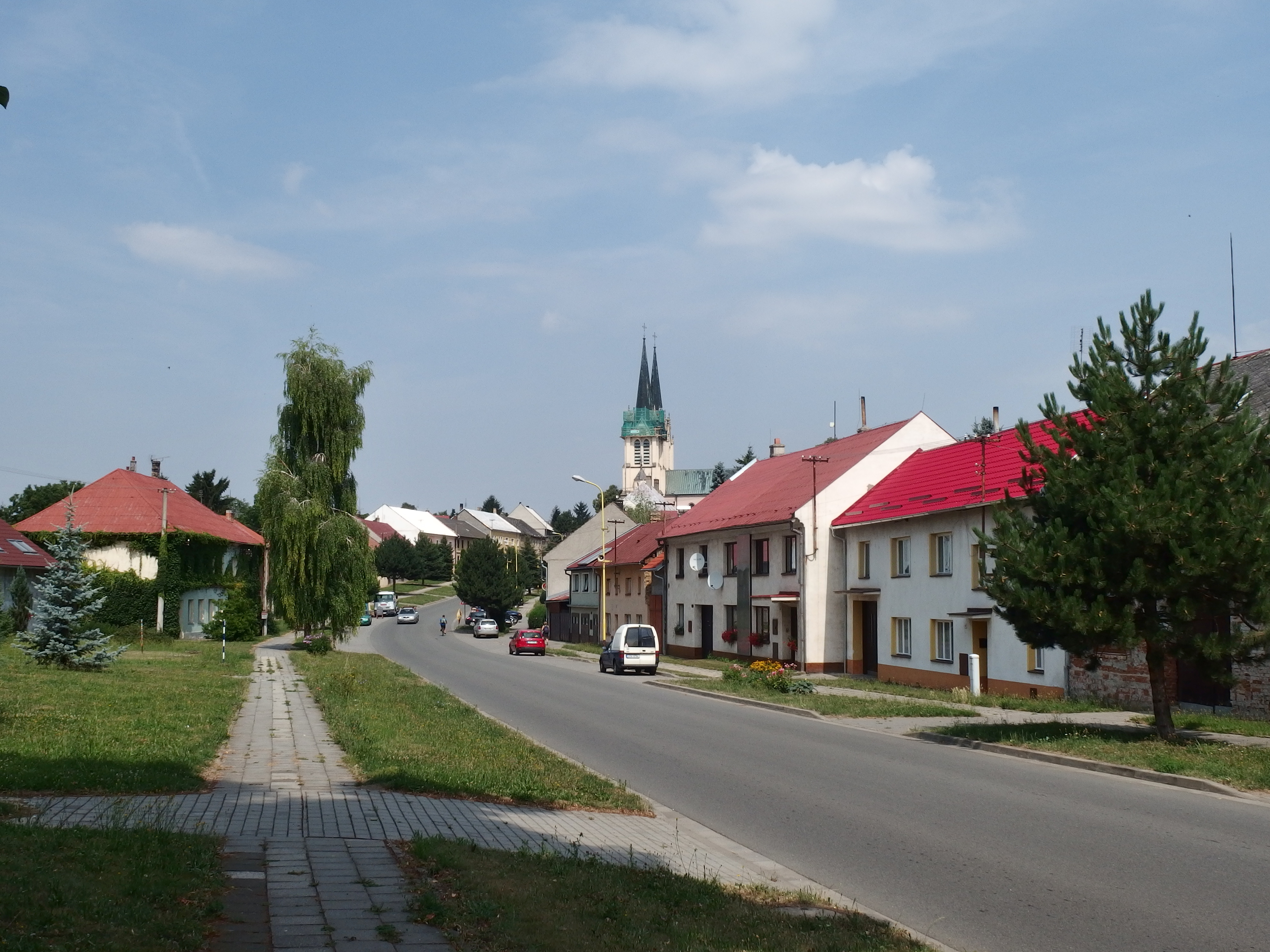 Rataje, Kroměříž District, Czech Republic.